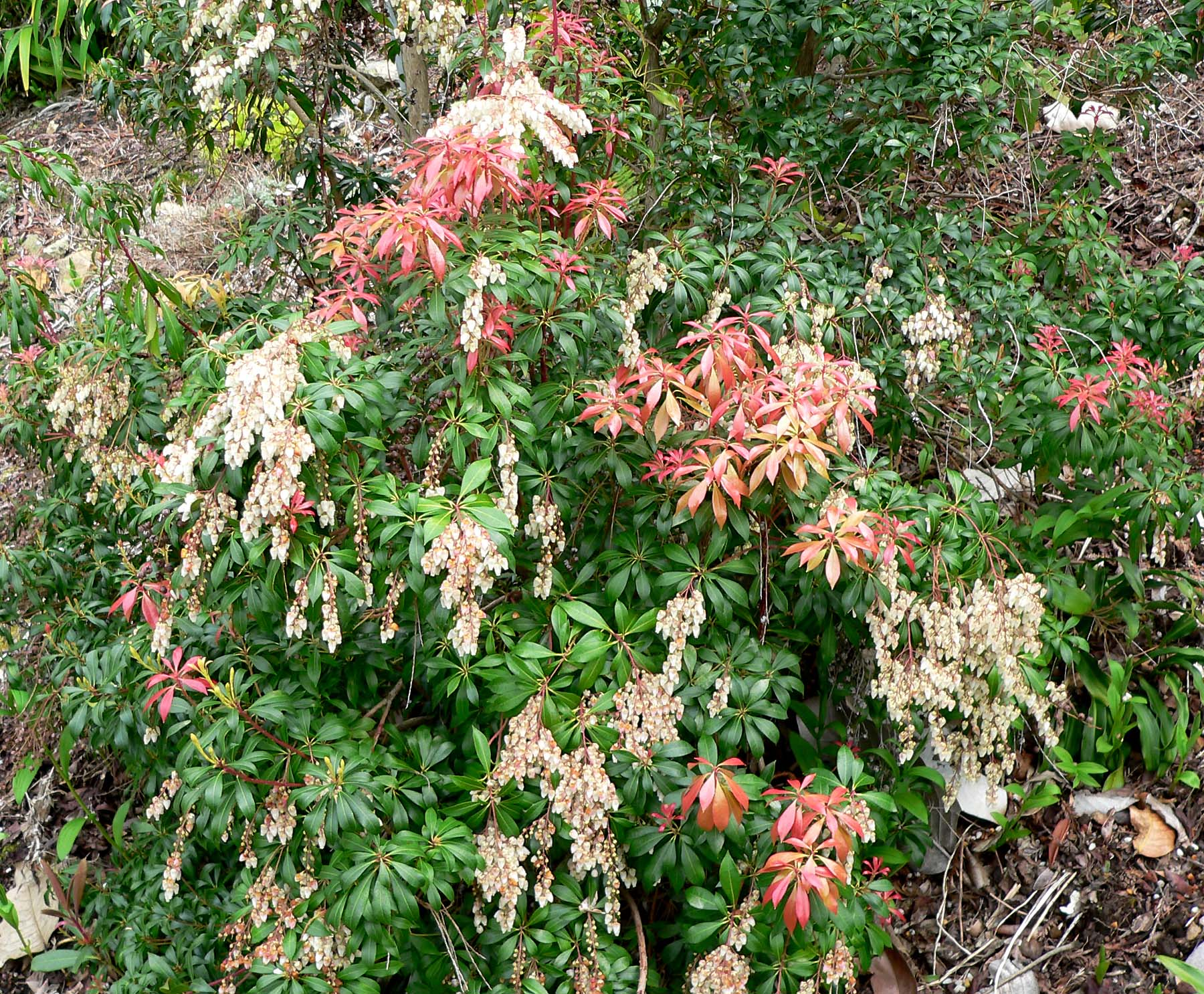 Photo of Pieris japonica at the University of California Botanical Garden